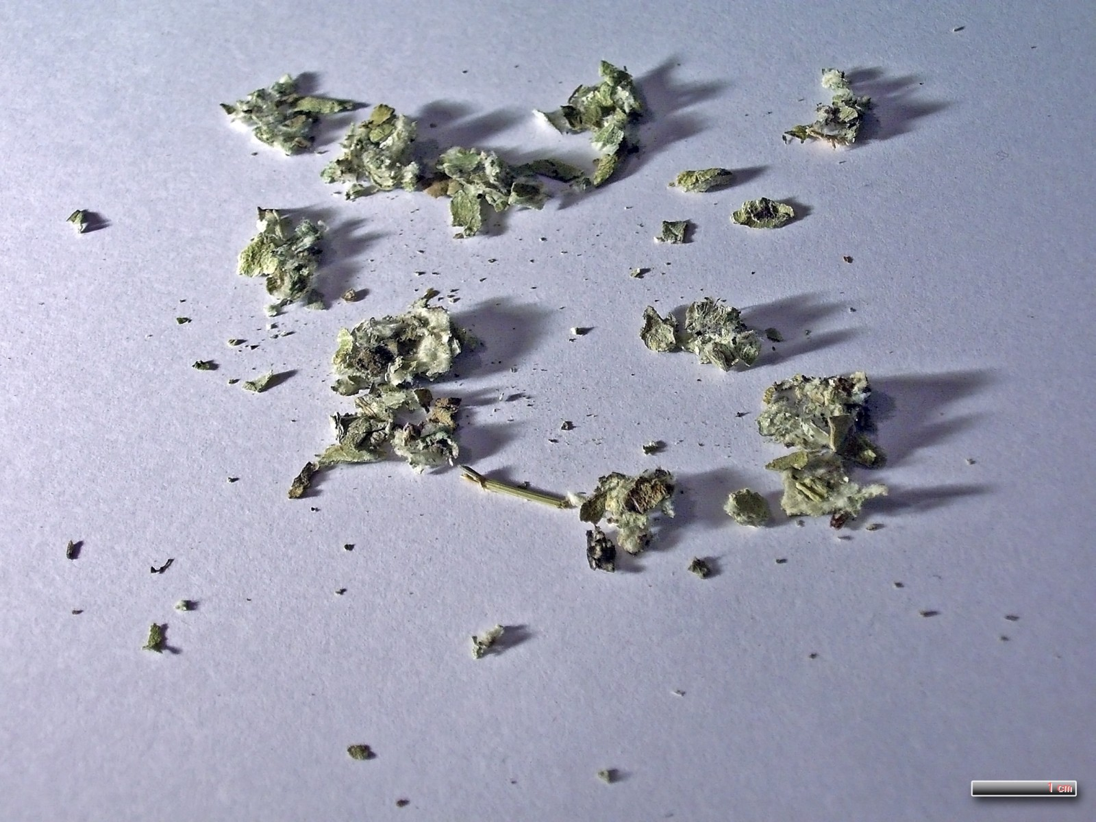 dried Tussilago farfara, commonly known as Coltsfoot, is a plant in the family Asteraceae.; Leaves